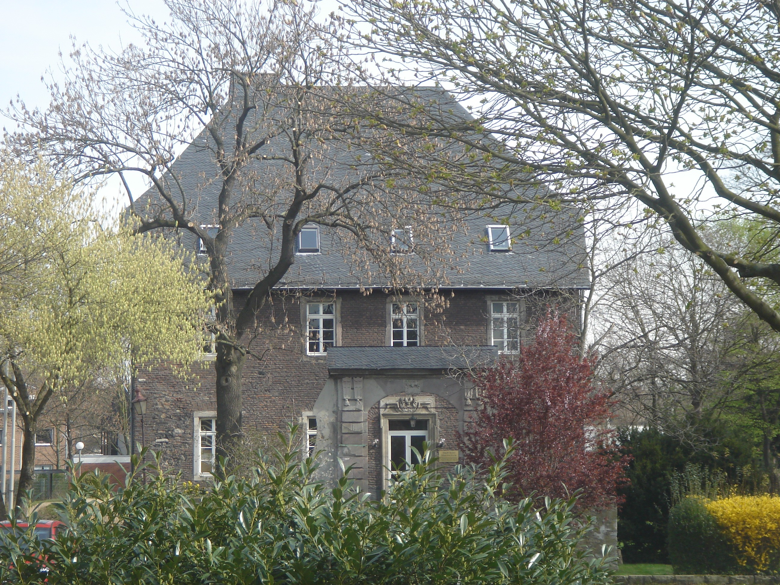 Castle Dransdorfer Burg in Bonn-Dransdorf.